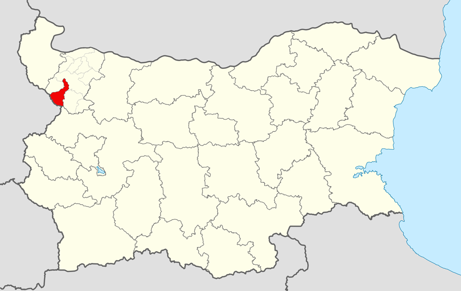 Location map of Georgi Damyanovo Municipality within Bulgaria and Montana Province. Equirectangular projection, N/S stretching 130 %. Geographic limits of the map: N: 44.4° N S: 41.1° N W: 22.1° E E: 28.9° E